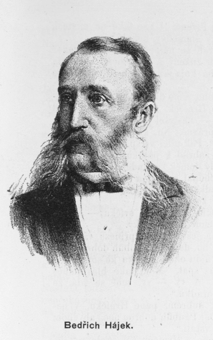 Portrait of Bedřich Hájek (cca 1828 - 1912), Czech lawyer and politician.